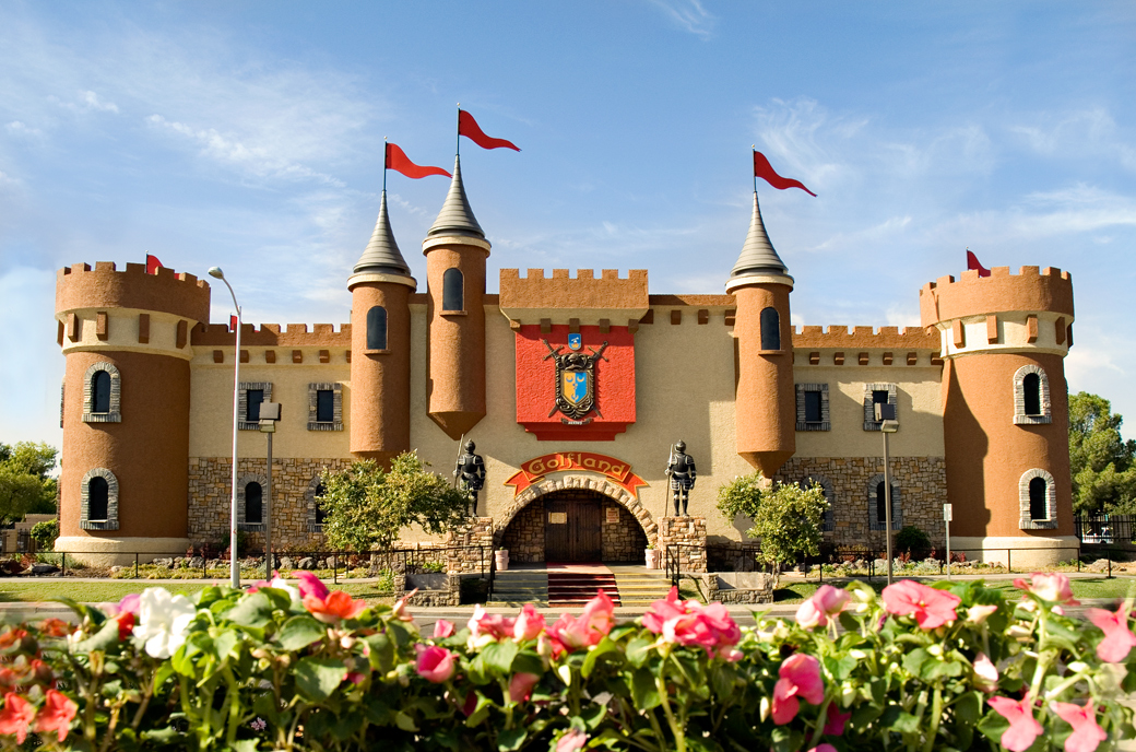 The Castle at Golfland-Sunsplash in Mesa, AZ